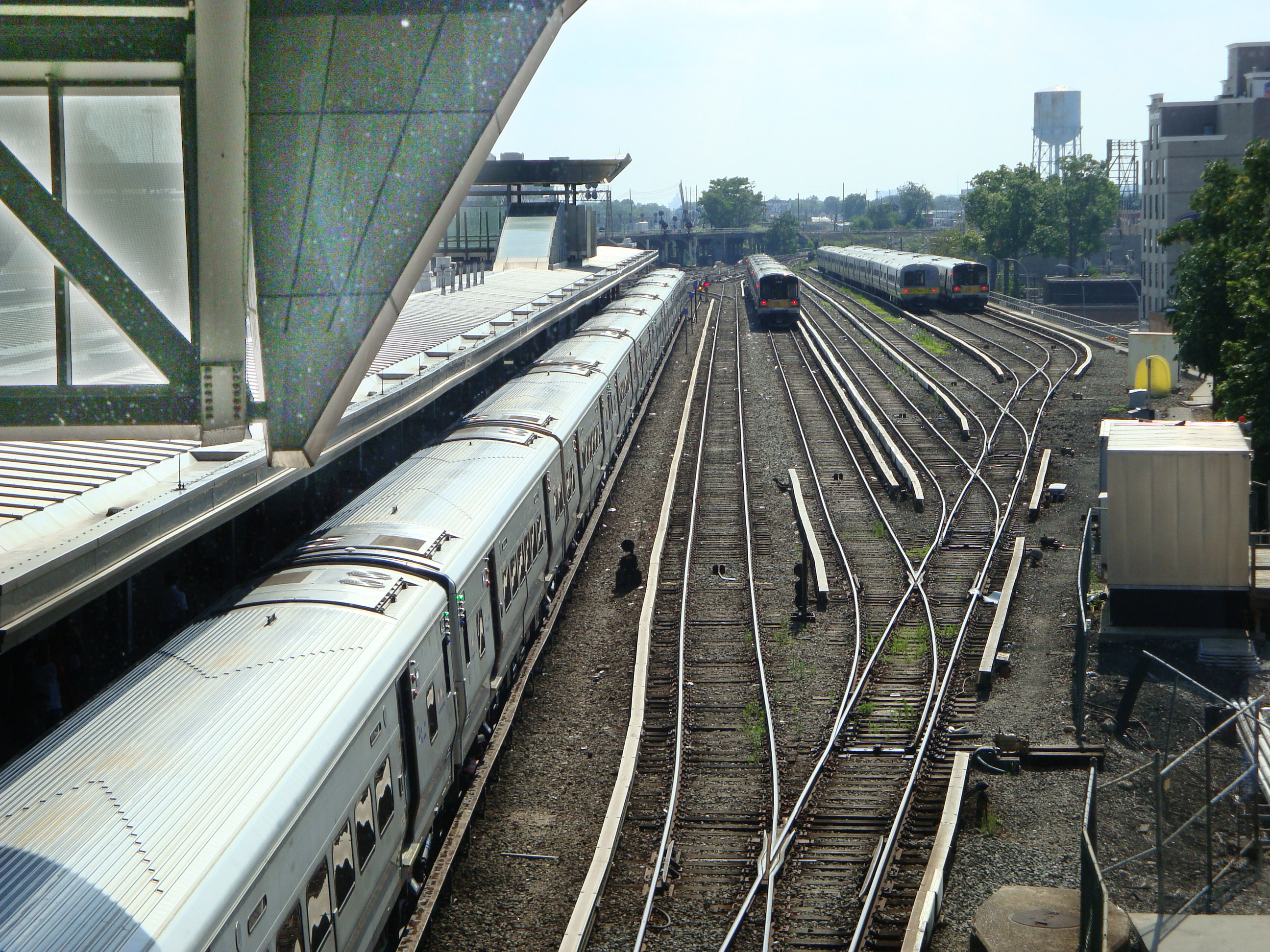 Layup tracks North of Jamaica Station in Queens, New York